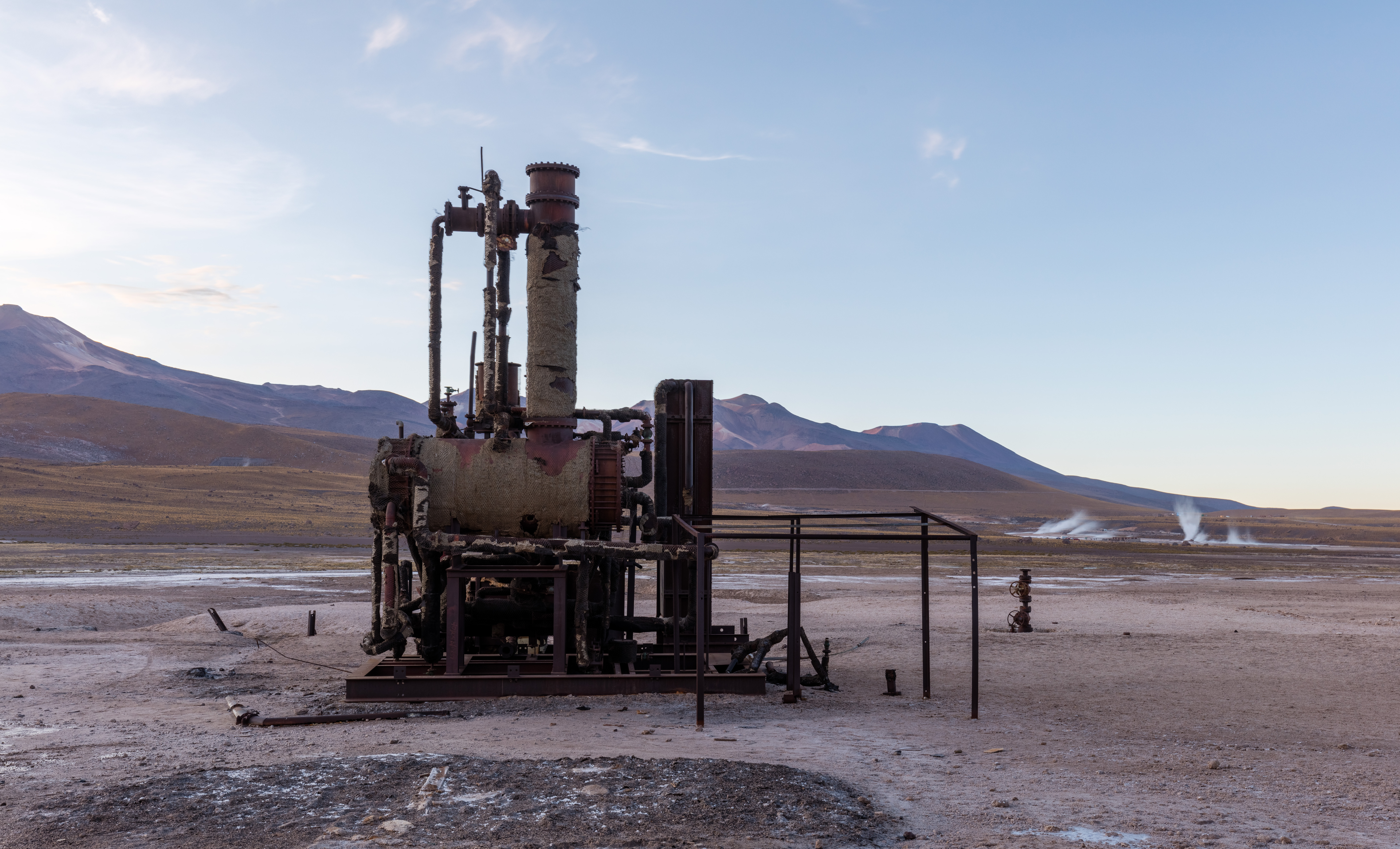 Geothermal maschinery abandoned in geysers of Tatio, San Pedro de Atacama, Chile